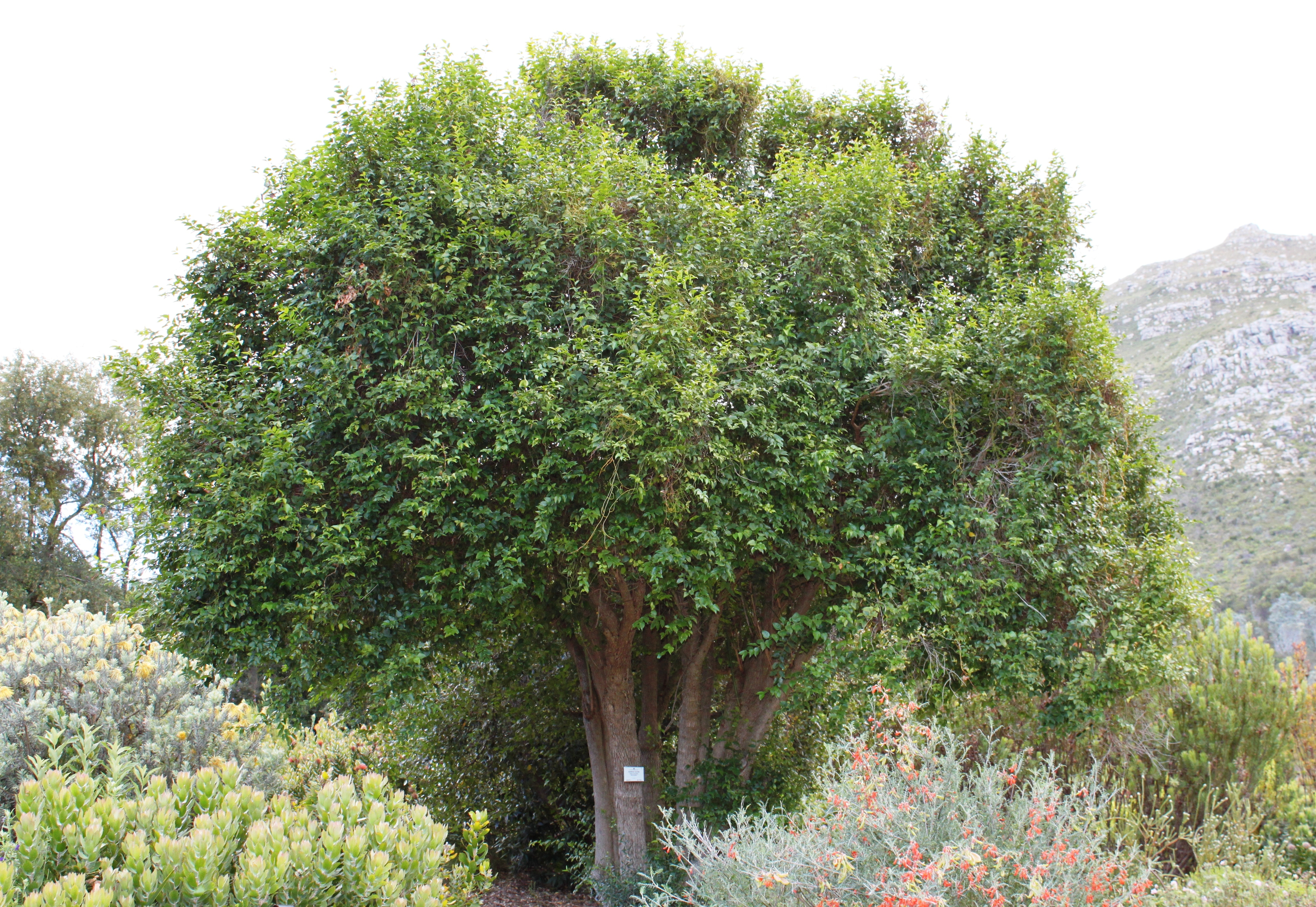 Halleria lucida. The Tree Fuchsia. Photo taken in Cape Town.